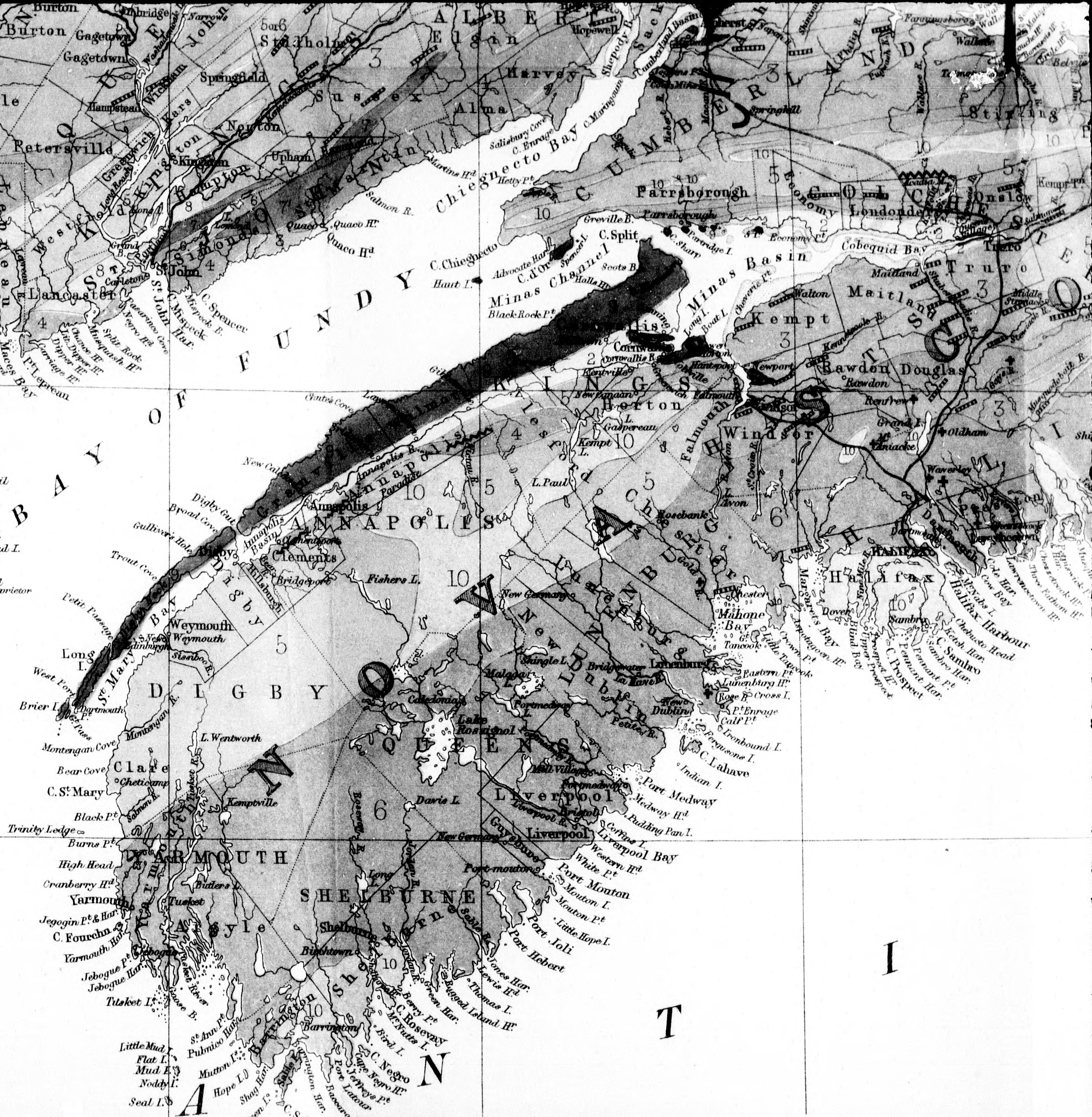 Title: Acadian geology (microform) : the geological structure, organic remains and mineral resources of Nova Scotia, New Brunswick and Prince Edward Island Year: 1868 (1860s) Authors: Dawson, J. W. (John William), Sir, 1820-1899 Subjects: Geology; Paleontology; Geology; Geology; Geologie; Paléontologie; Géologie; Géologie Publisher: London : MacMillan; Halifax (N. S. ) : A. and W. Mackinlay Text Appearing Before Image: ' Text Appearing After Image: ^^ E 1; ^ I J